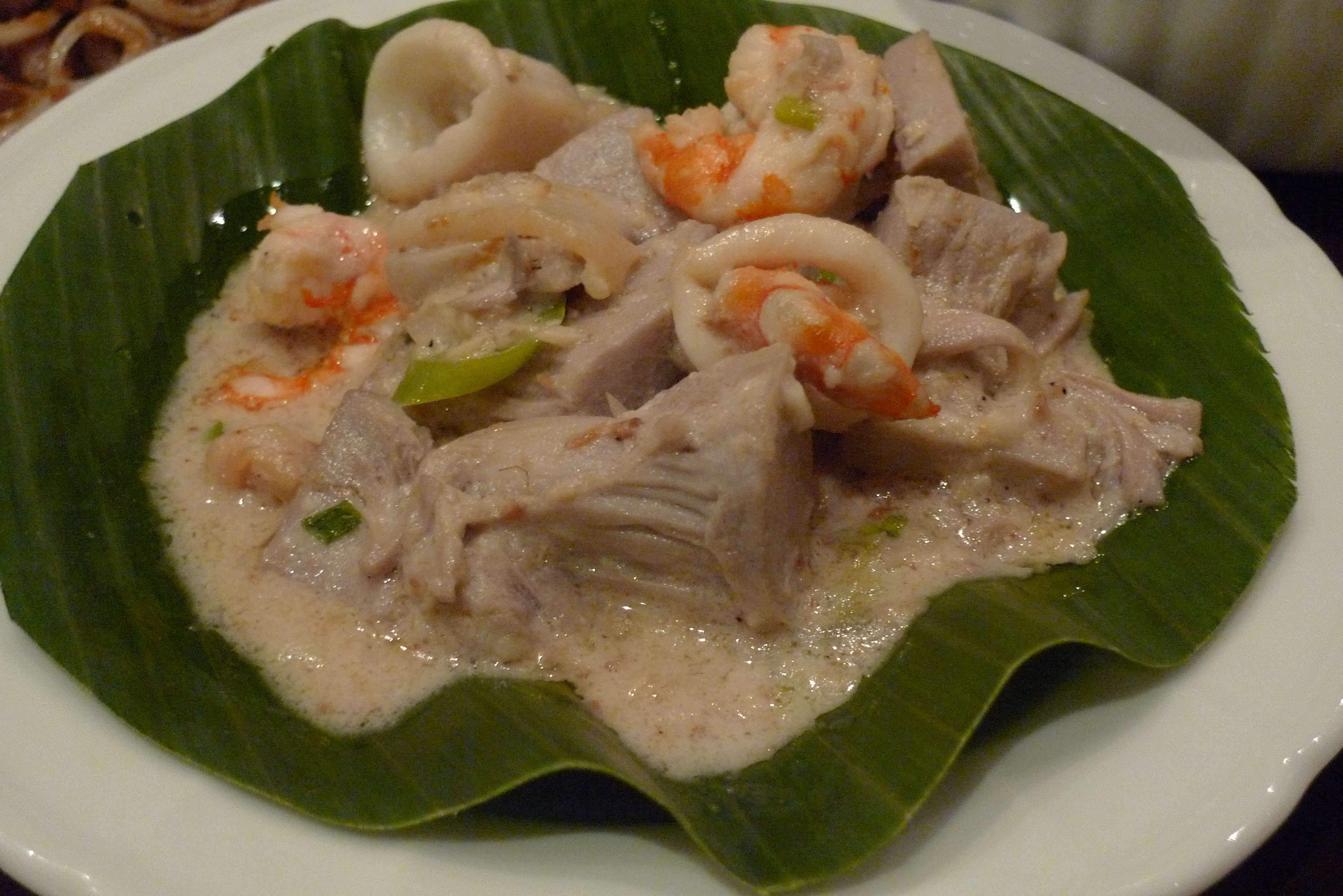 Ginataang langka with shrimp and calamari